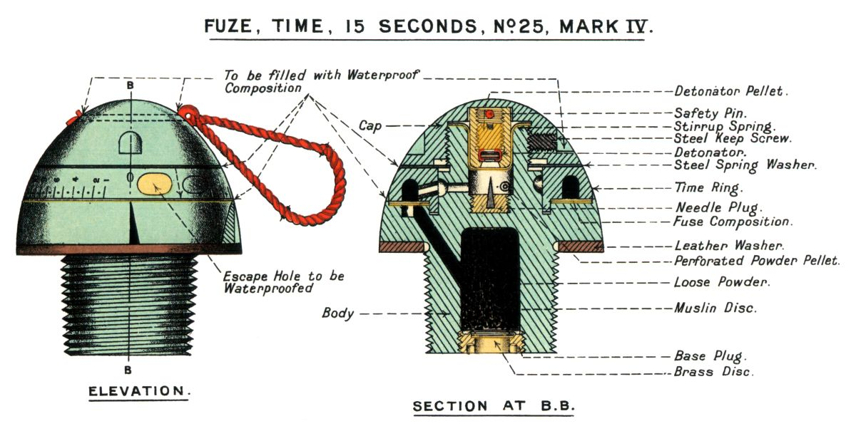 Diagram of British No. 25 Time fuze Mk IV, 1914, used for star shells. Body is of aluminium. Threaded for G.S. 1 inch socket. Normally used for Star shells. Has a weak stirrup spring, suited to relatively weak shock of firing of reduced charges used for star shells. The fuze is armed by the shock of discharge (firing). Burning time at rest : 15 seconds. May be used for star shell for all QF guns and howitzers.